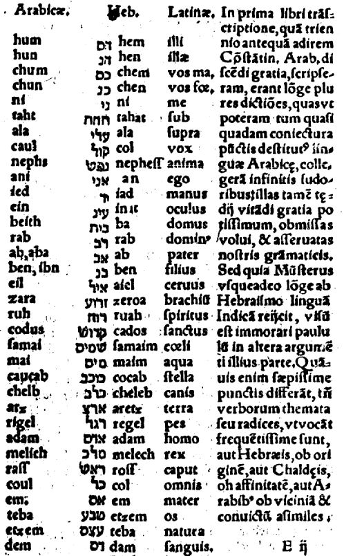 1538 comparison of Hebrew and Arabic, Guillaume Postel. Possibly the earliest such comparison in Western European literature (see Merritt Ruhlen p.77